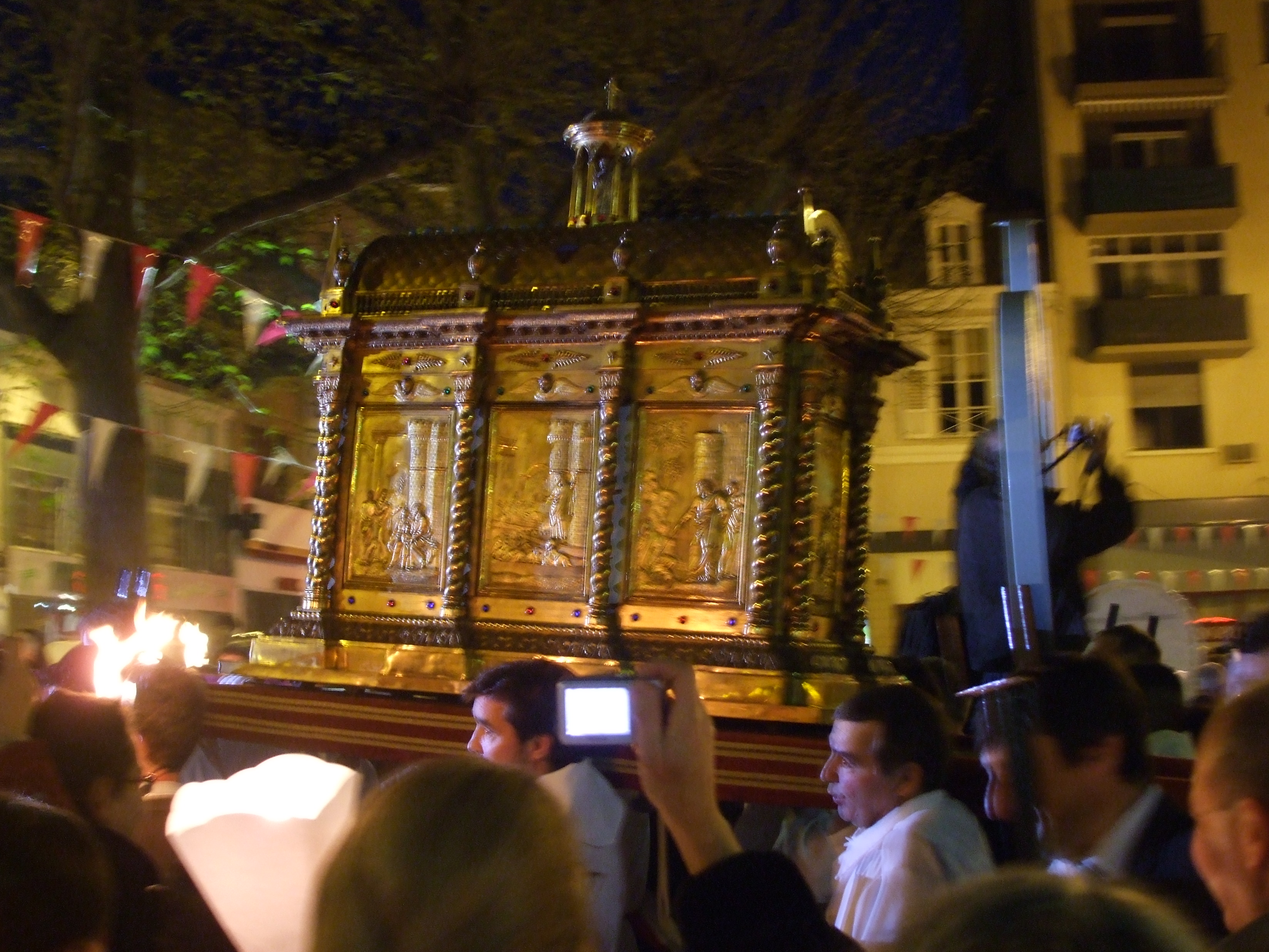 Opening procession of the ostensions, Limoges,France, 18 april 2009